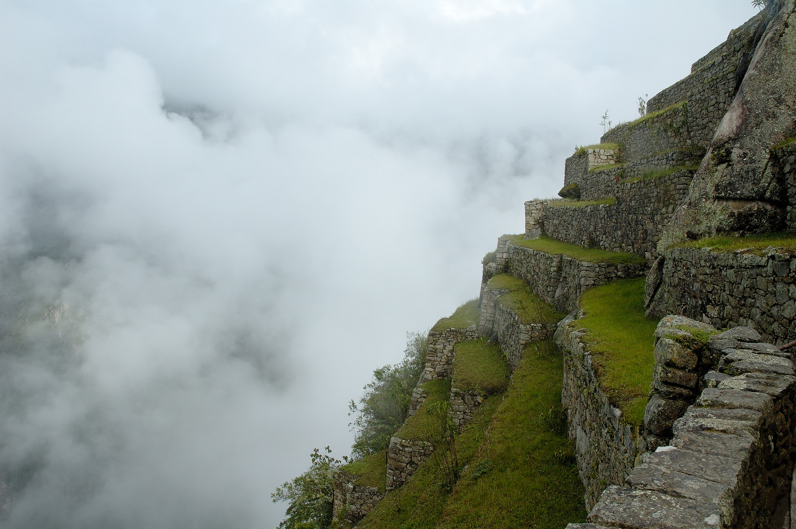 Terraced Fields in Machu Picchu, Peru.